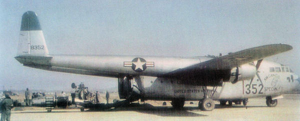 C-119B of the 314th Troop Carrier Group 48-352 operating from a base in South Korea.